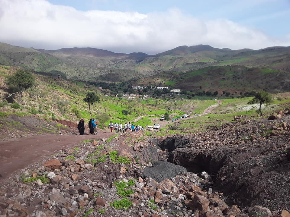 Medeho in the winter.